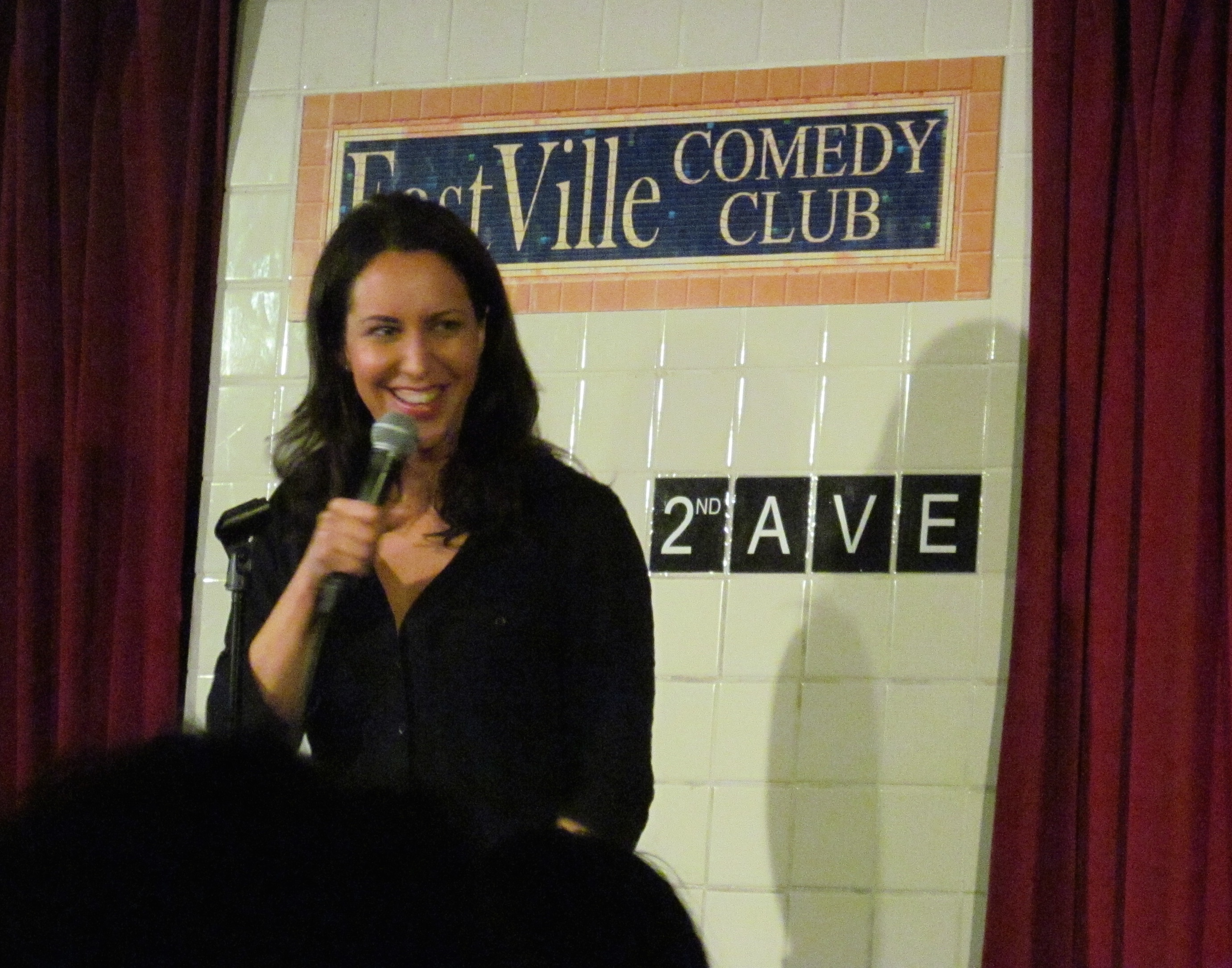 Rachel Feinstein performing at the Eastville Comedy Club 2014 December 26